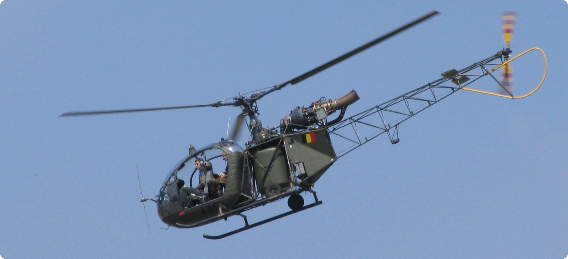 Alouette II Hélicopter of the belgian army. Picture toke at Florenne airfield (EBFS).